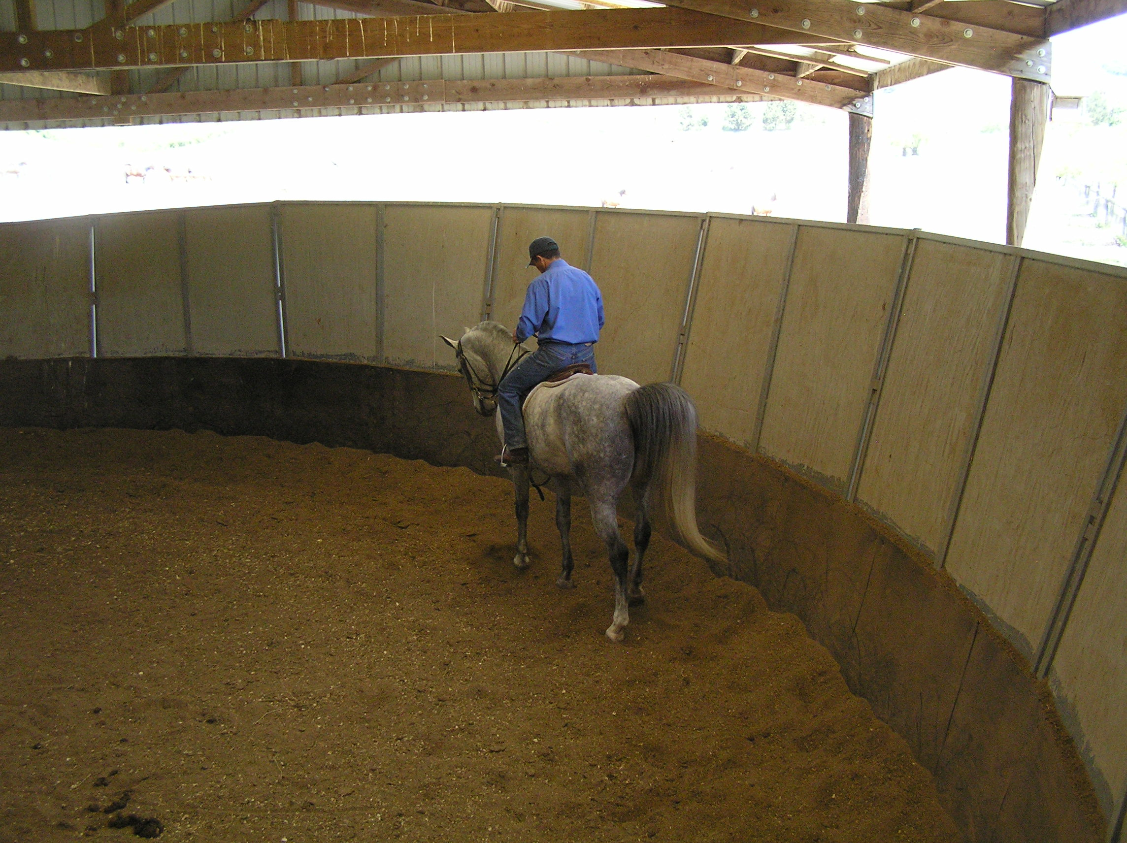 A round pen for training horses, "bullpen" style with solid walls. Has a roof over it, allowing use during inclement weather. Sand footing. Location: Arroyo Grande, California